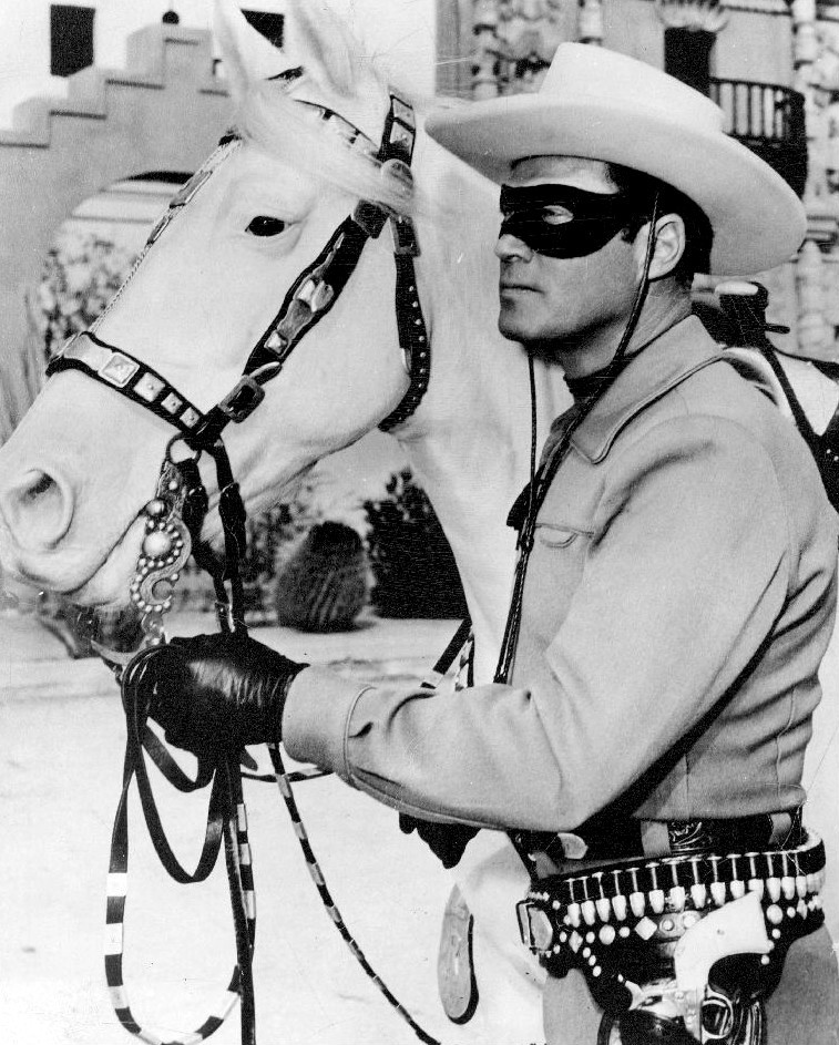 Publicity photo of Clayton Moore as the Lone Ranger and Silver from a personal appearance booking at Pleasure Island (Massachusetts amusement park), Wakefield Massachusetts.